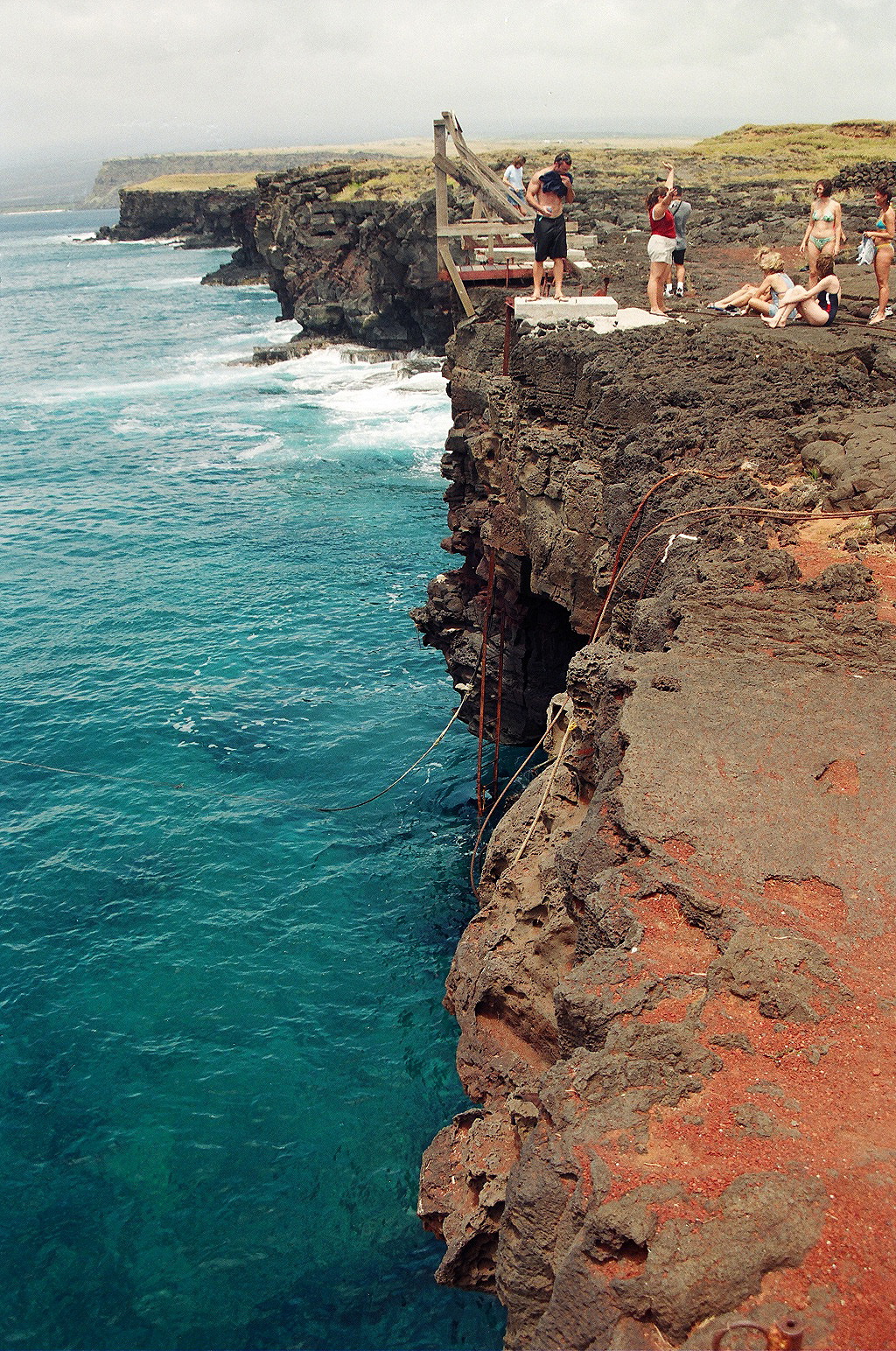 Ka Lae — the southernmost geographical point of the Big Island of Hawaiʻi and of the 50 United States. In Hawaiian: "the point" — and also known as South Point.